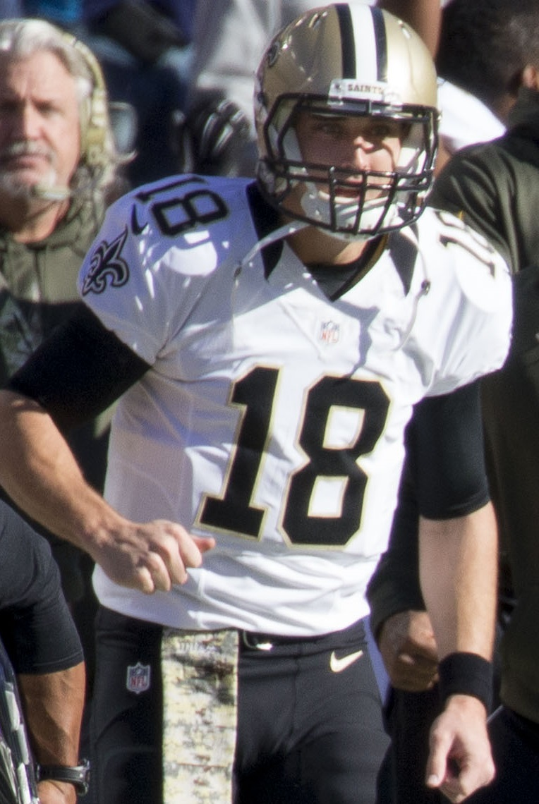 Saints at Redskins 11/15/15